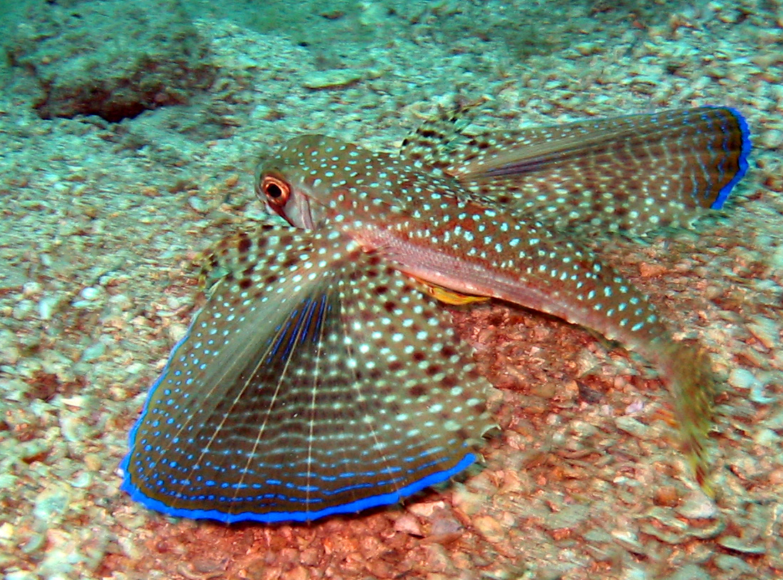 Flying gurnard (Dactylopterus volitans). Fish of the Dactylopteridae family.